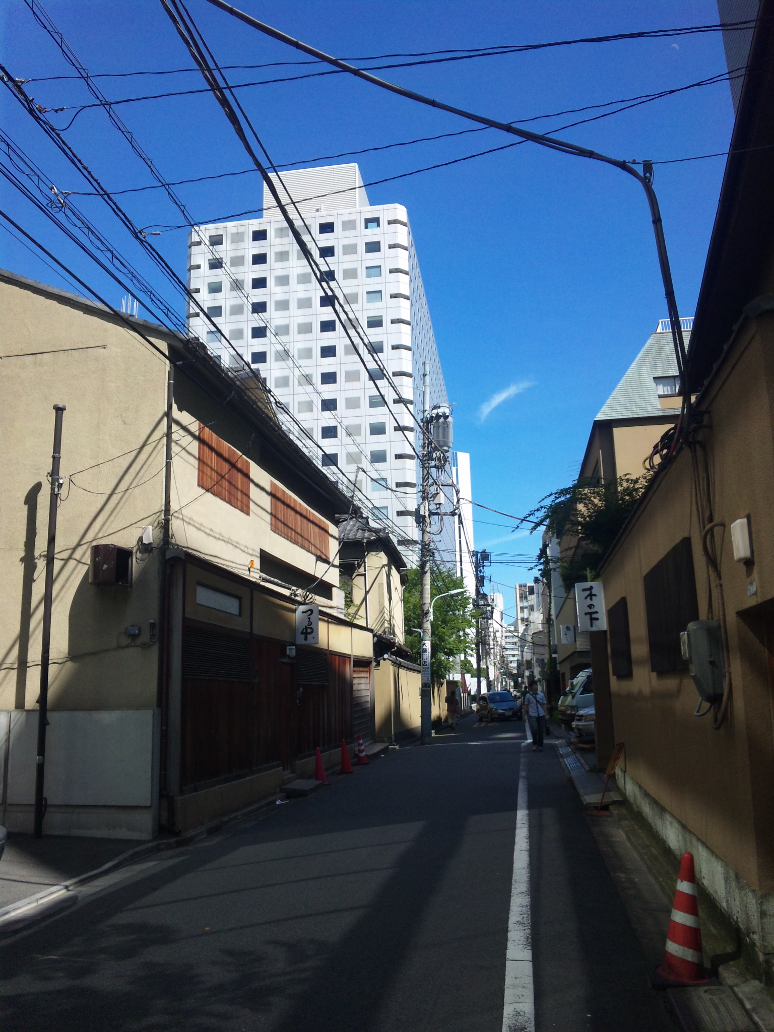 AKASAKA Ryoutei